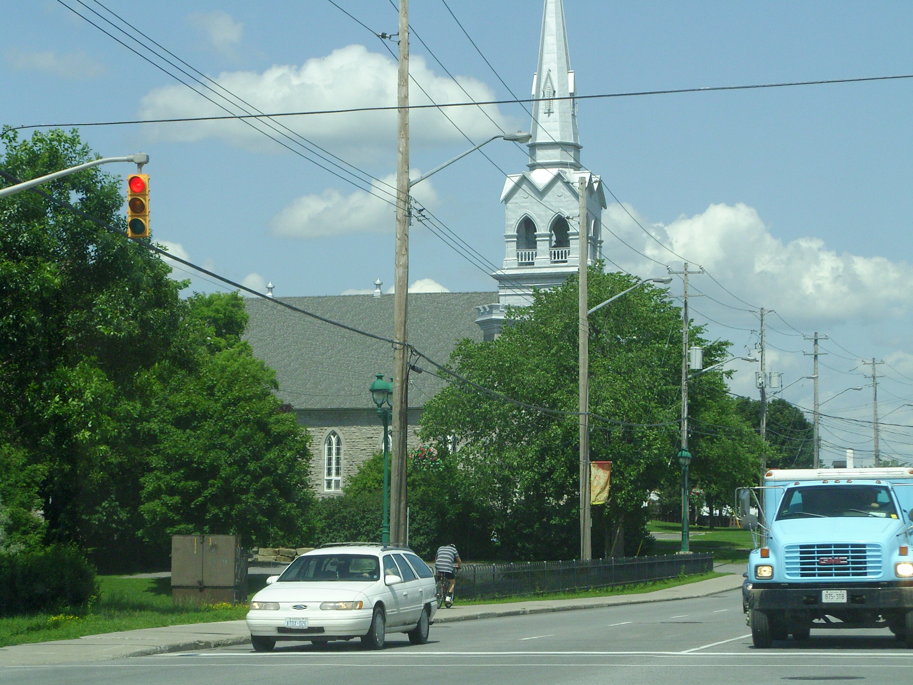 St. Joseph's dominates older Orleans district.